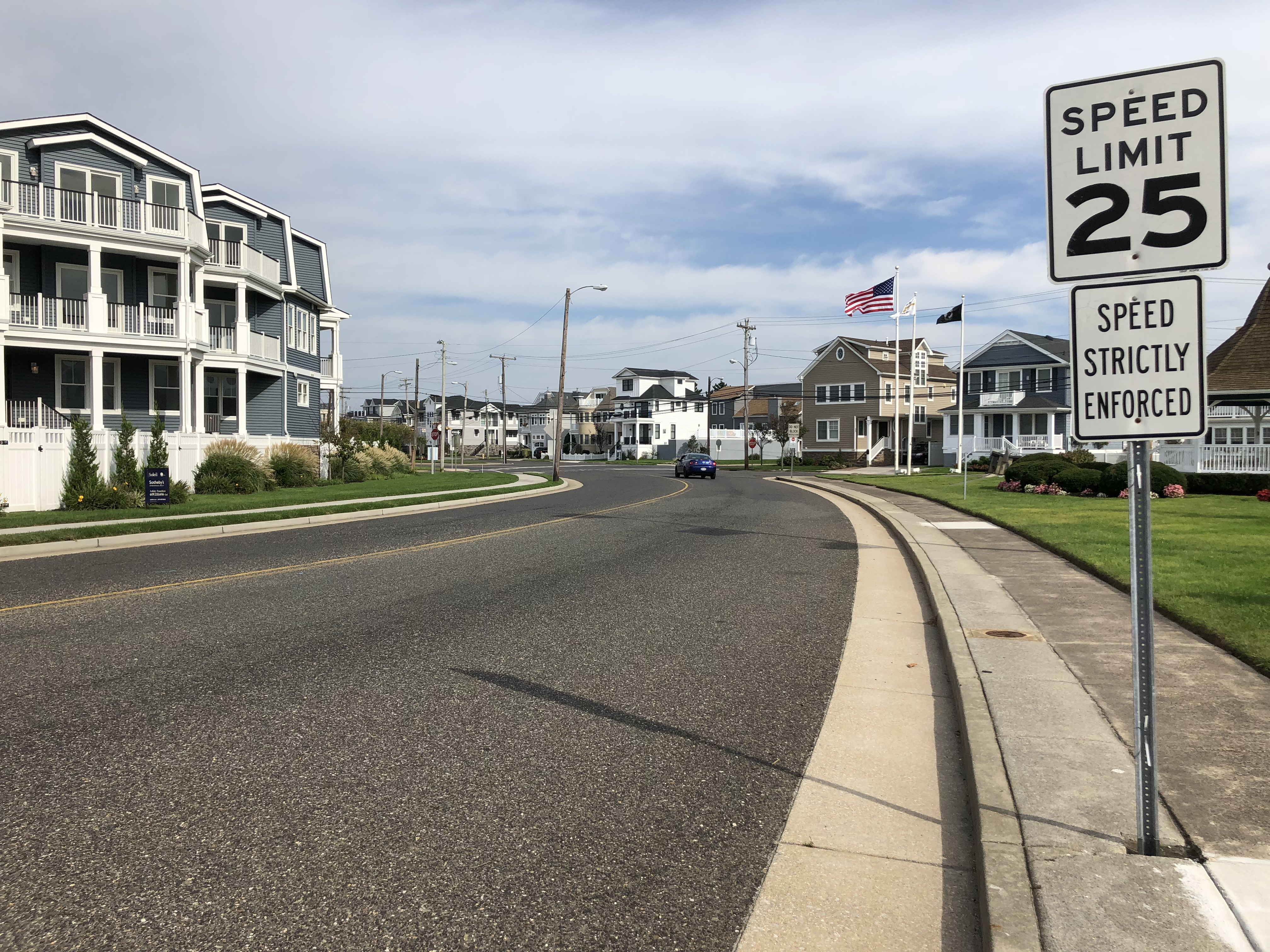 View east along Atlantic County Route 629 (Ventnor Avenue) at Absequam Avenue in Longport, Atlantic County, New Jersey